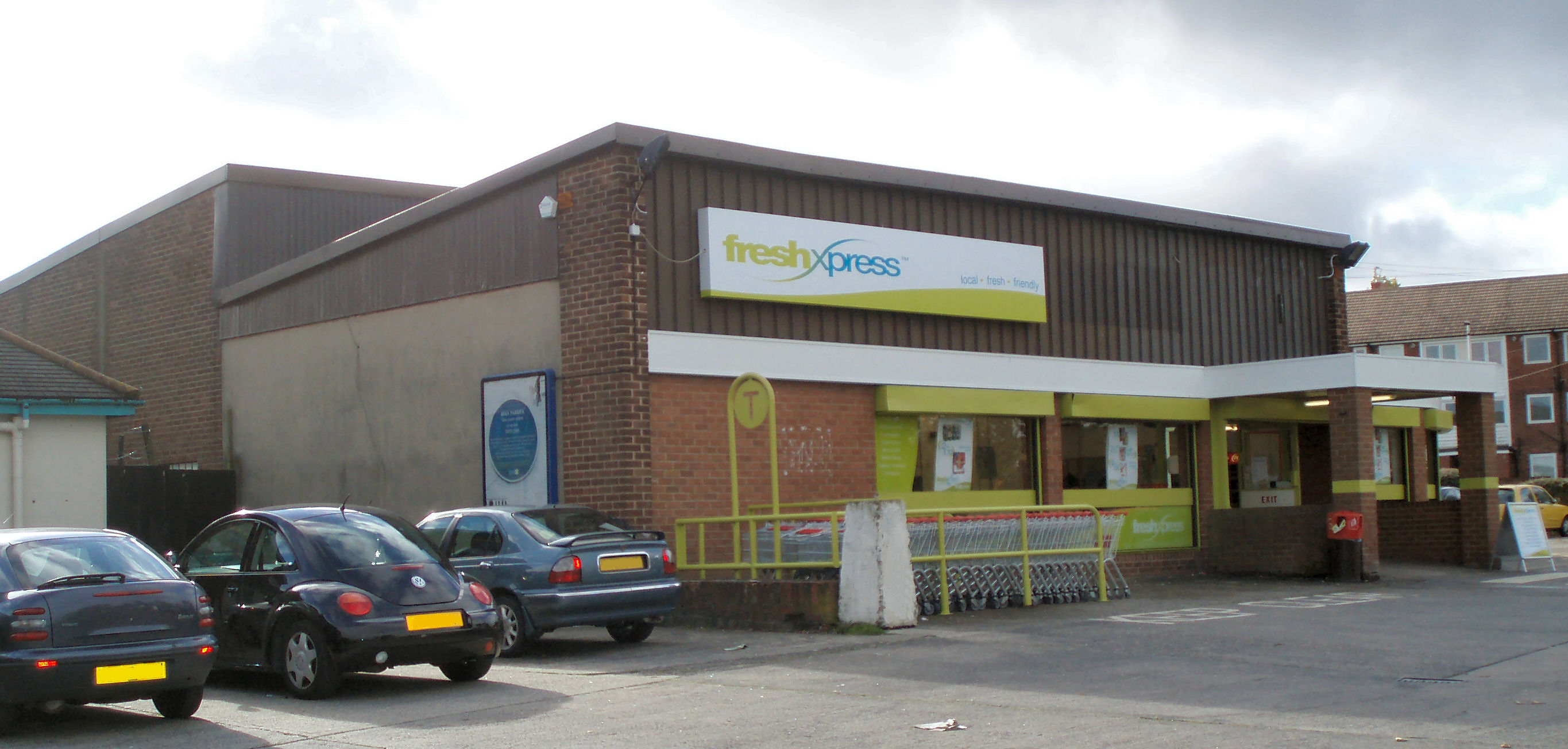 This is a FreshXpress store, which has been converted from a Kwik Save store. As of May 2009 this building is to be demolished, and replaced by a Netto store. FreshXpress Fawdon, Wansbeck Road South, Regent Farm Estate, Gosforth, Newcastle upon Tyne